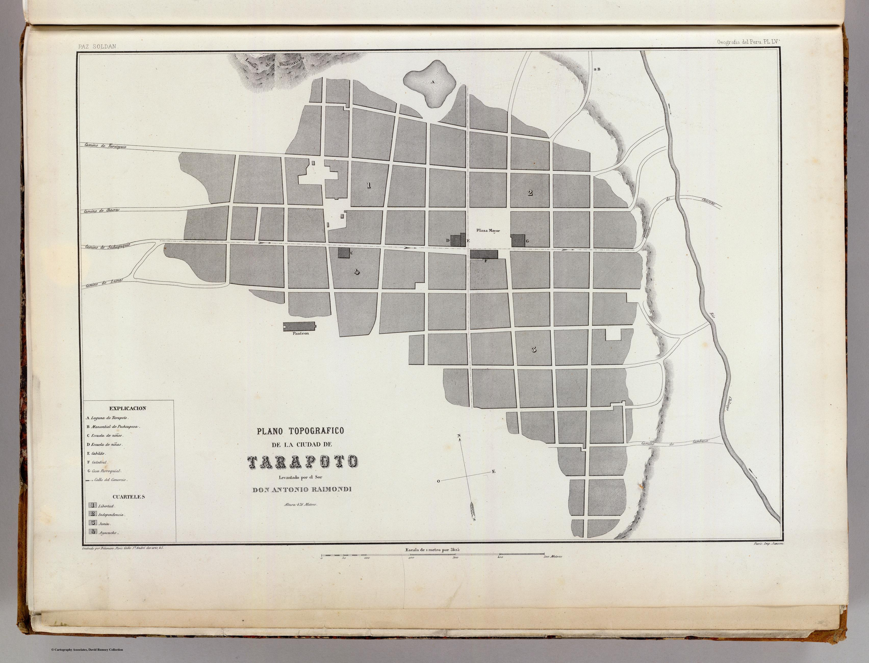 The first Atlas of Peru, with wonderful maps, plans, thematic maps, views and statistical information. The atlas exudes the optimism of the period. In addition to the forty five maps and plans, there are twenty three views and scenes, including a very large fold out panorama of Paz Soldan's home city of Arequipa. This issue's title page is the same as Sabin's; the title of the copy listed in Phillips does not have the dedication to Castilla and has Fermin Didot Hermanos as the publisher - which is also the case with the copy owned and described by Michael Layman in TM C. Apparently there were two Spanish issues made in the same year in Paris; Durand also published a Paris edition in French in 1865. The contents of our copy and Layland's copy appear to be identical, so perhaps only the title pages were different. Nine of the Department maps in our copy are hand colored, with the rest uncolored (normally the Department maps are uncolored). Paz Soldan published a large six sheet Mapa del Peru in 1864 (see The Map Collector). Atlas is bound in half leather brown marbled paper covered boards with "Paz Soldan. Atlas Geografico Del Peru" stamped in gold on the spine.